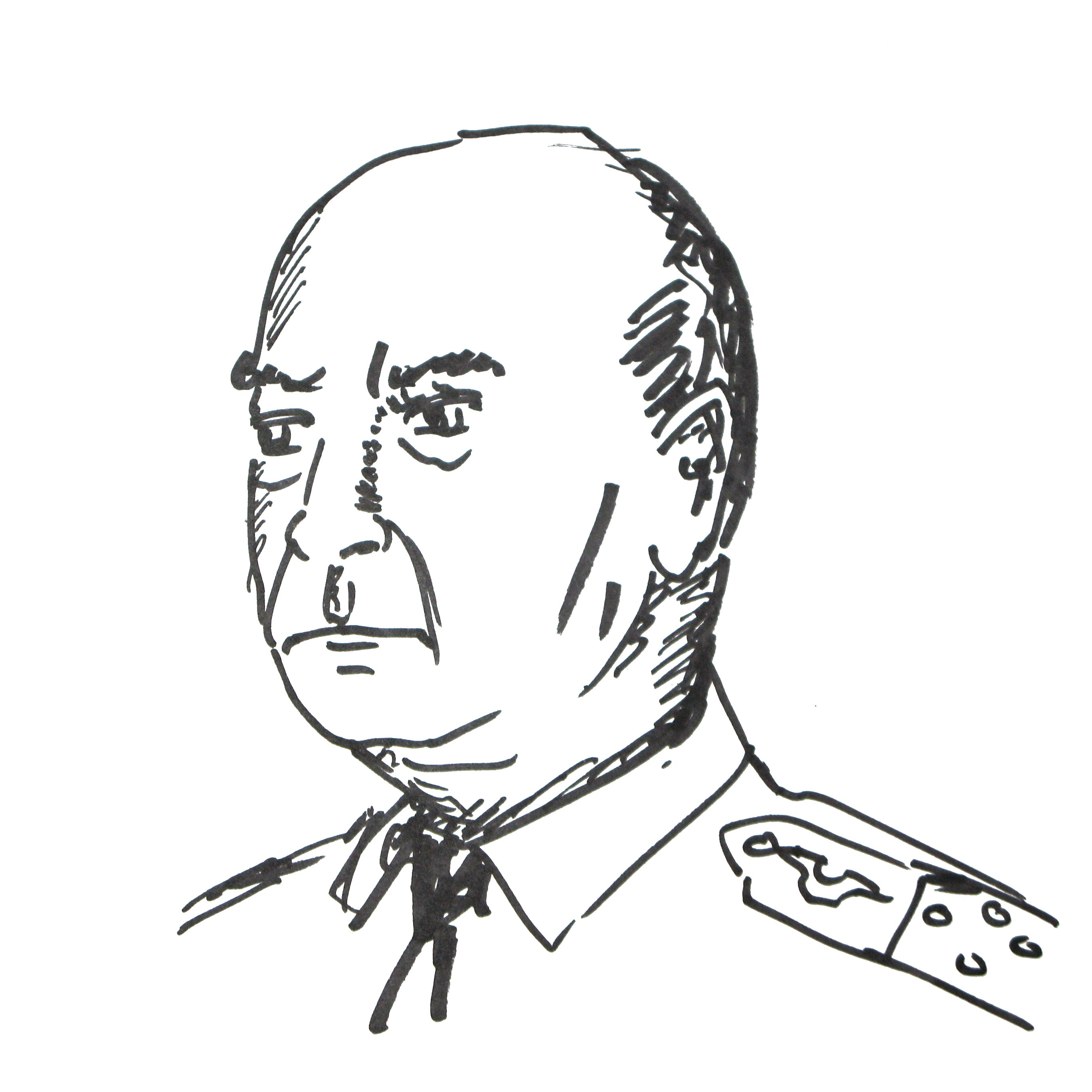 General Edmond Jouhaud